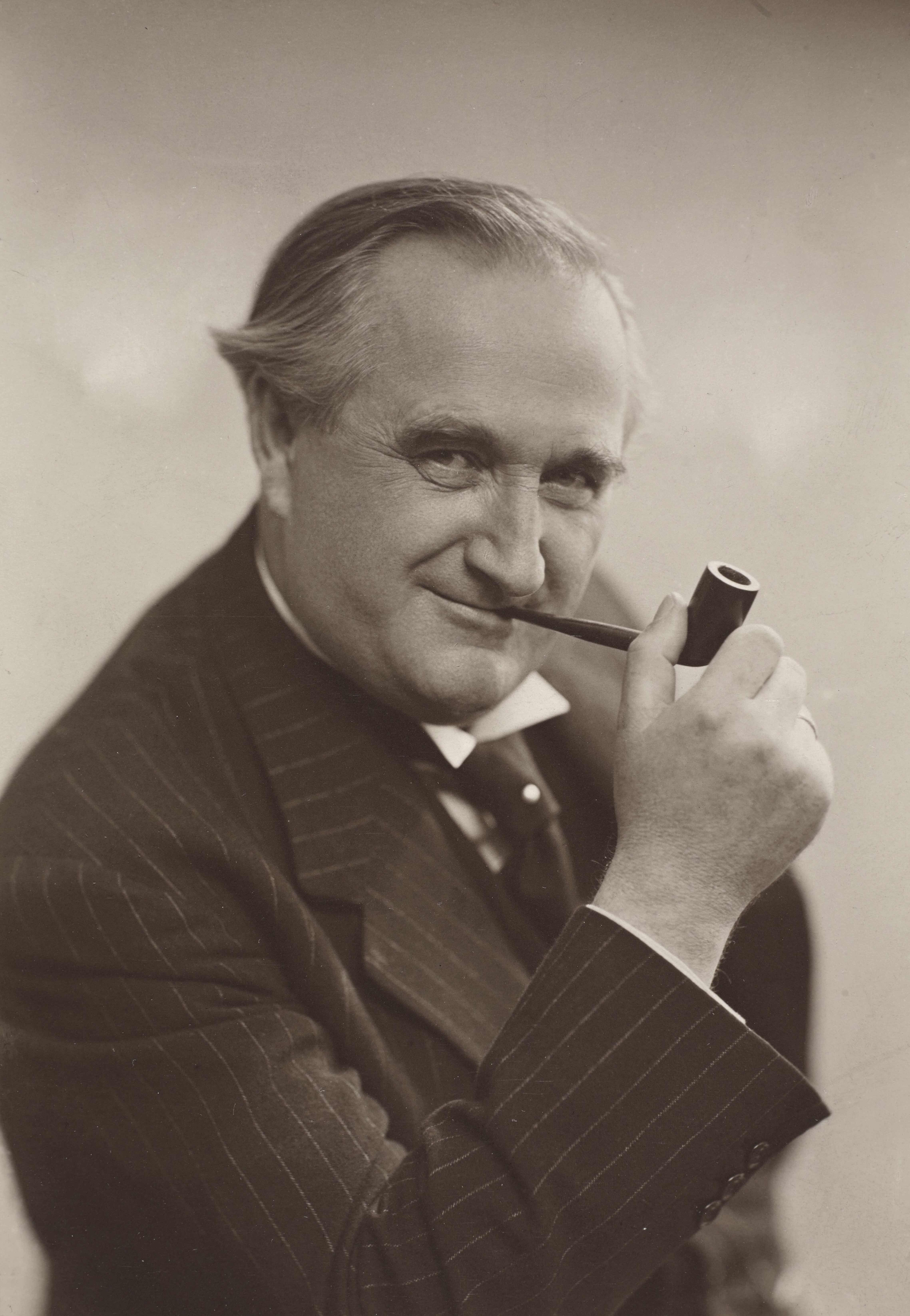 Danish cartoonist Storm P smoking a pipe by Albert Max Schou jr.